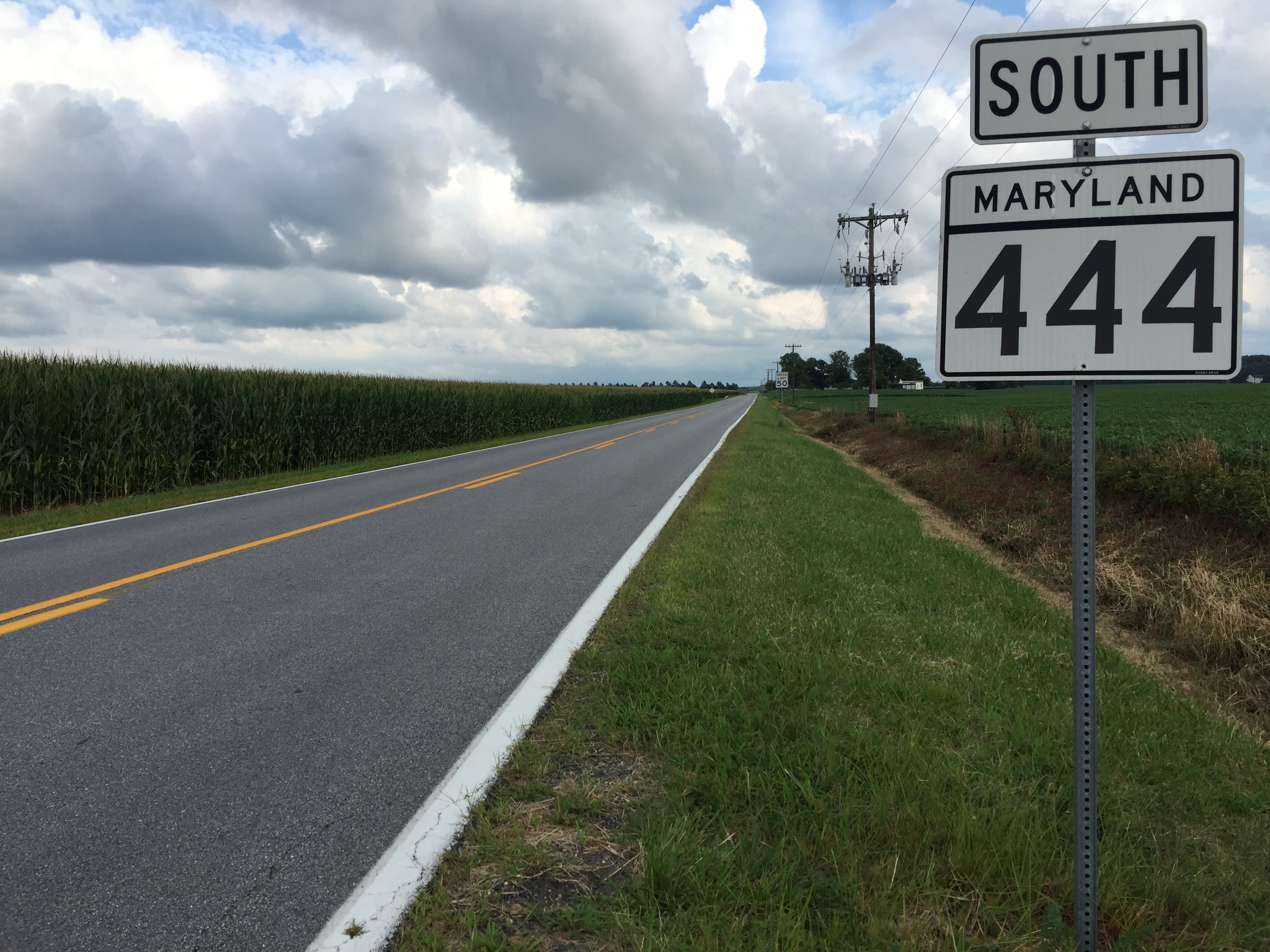 View south along Maryland State Route 444 (Locust Grove Road) at Maryland State Route 213 (Augustine Herman Highway) in Locust Grove, Kent County, Maryland